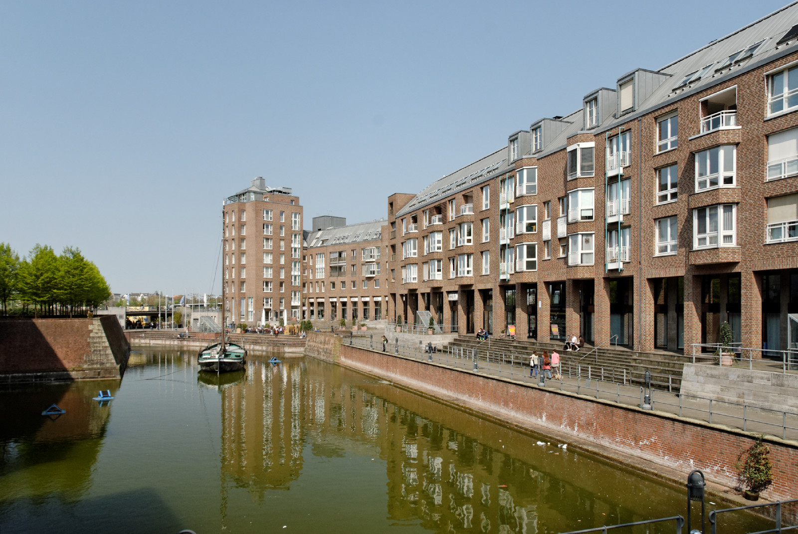 Old Harbour in Düsseldorf-Carlstadt, Germany